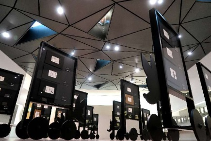 Interior de la sala de exposiciones. Lucernarios triangulares.